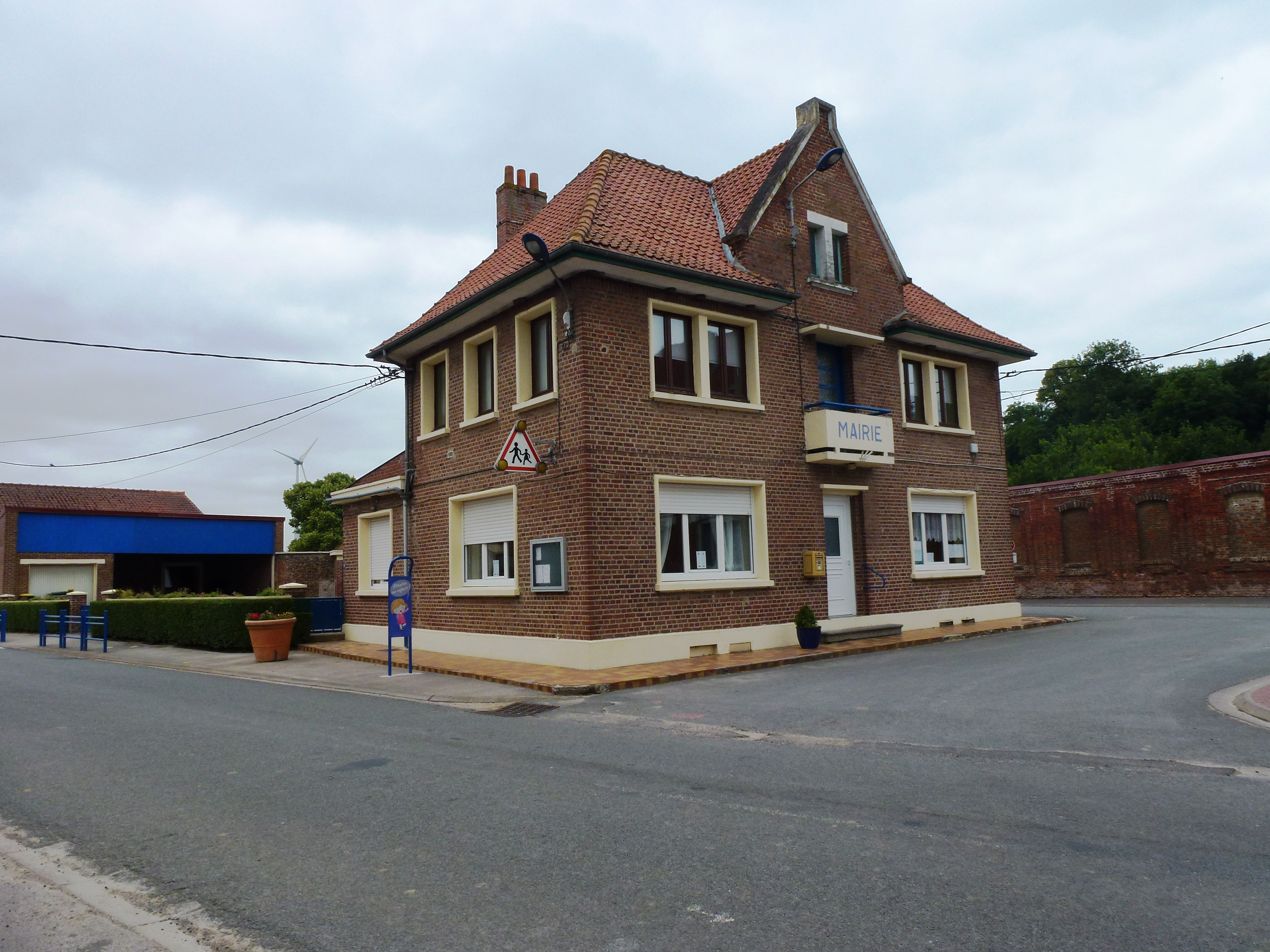 Linghem (Pas-de-Calais) mairie